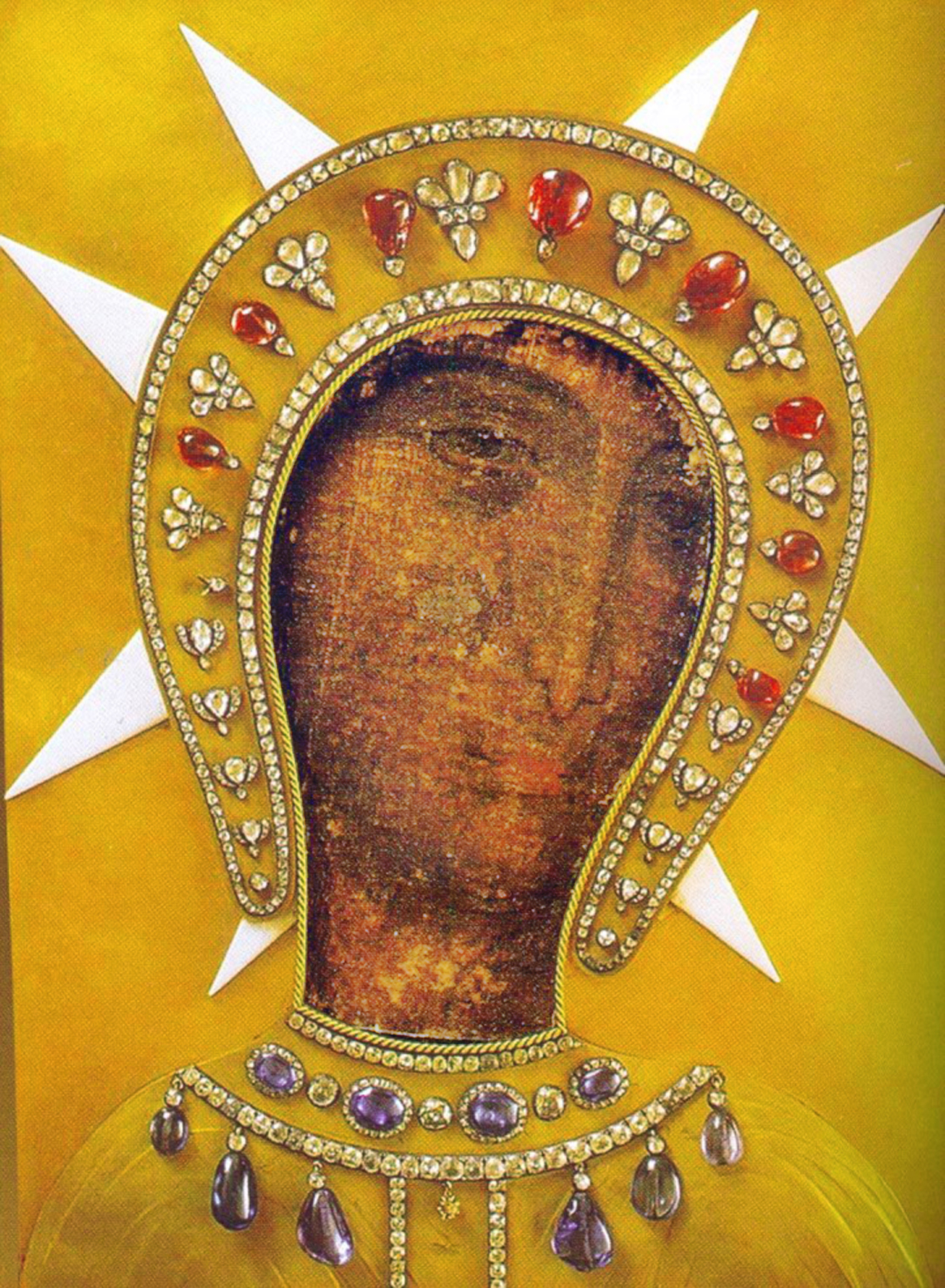 Original icon of Our Lady of Philermos, patron of the Knights Hospitaller of St. John of Jerusalem. It is currently preserved at the Monastery of Cetinje in Montenegro.